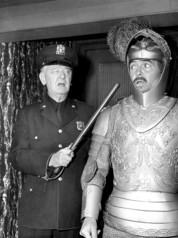 Photo of James Burke as a policeman and James Mason as a history professor who becomes stuck in a suit of armor from The DuPont Show with June Allyson's episode "Once Upon a Knight".